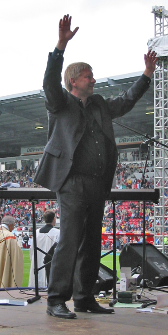 15th August 2005, the final service "Days of Encounter", Mainz (Bruchwegstadion)